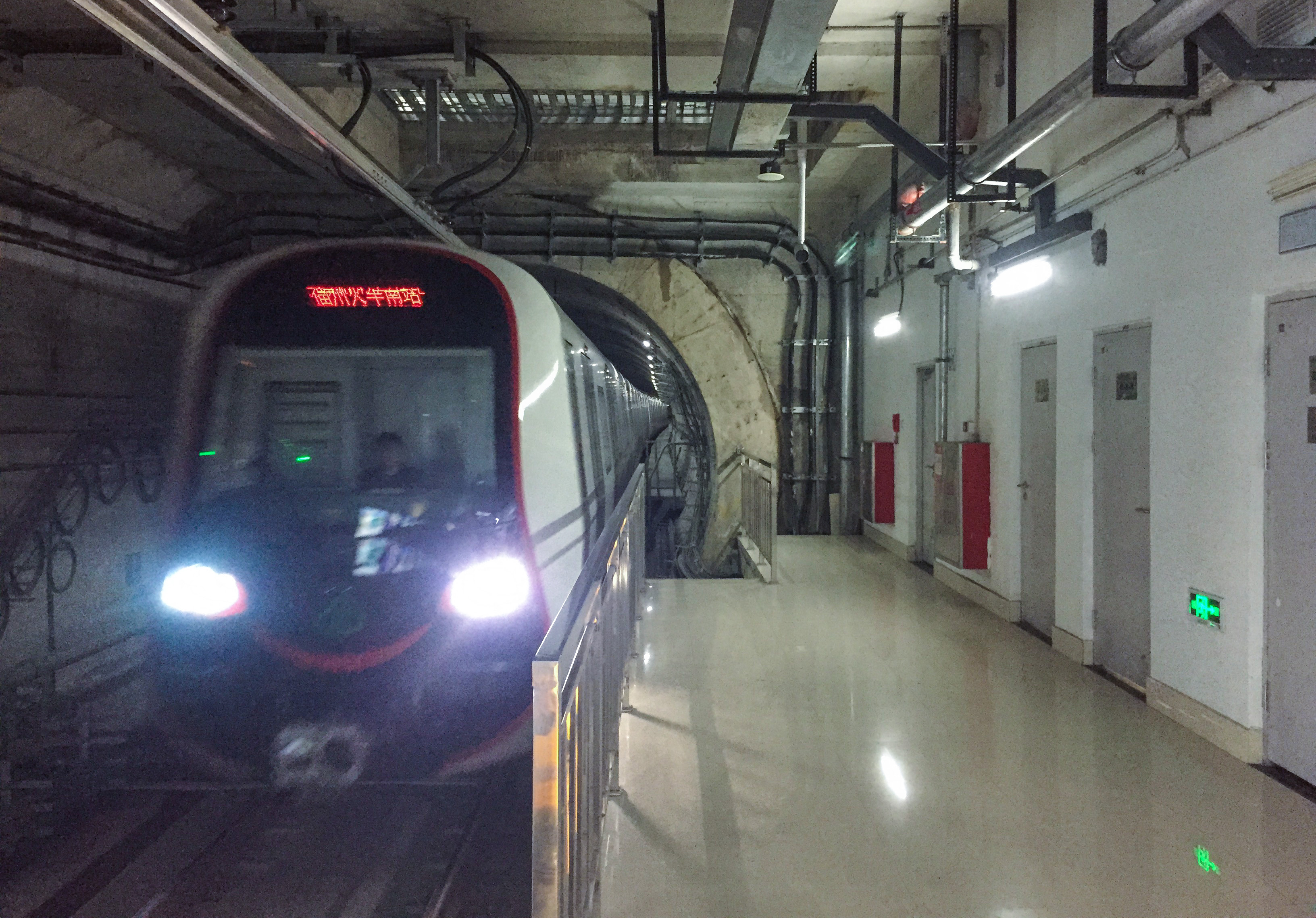 The Jasmine Train, but only Car 1 has decals. I heard that BJMTR made another decorative train, L4 051.